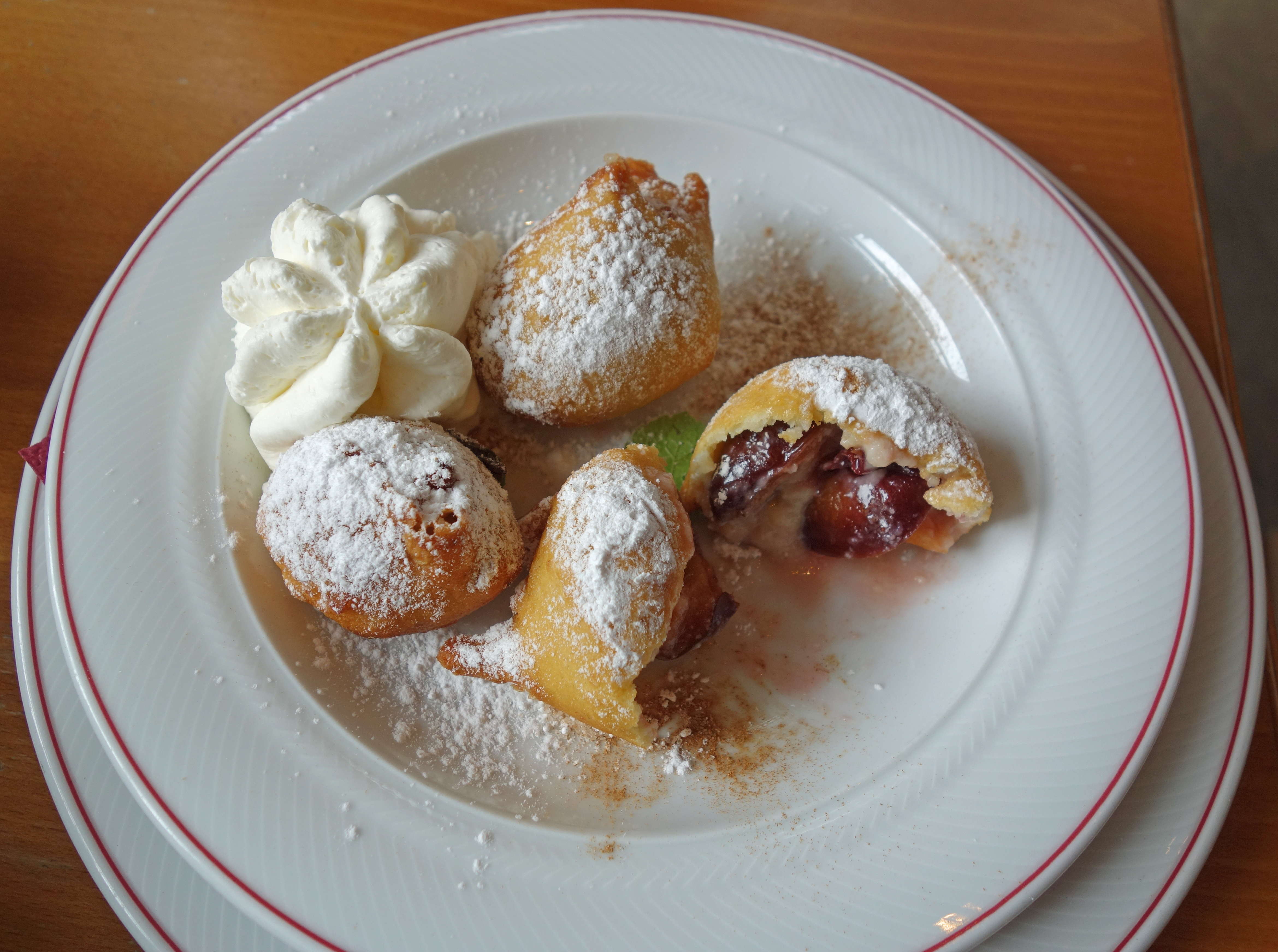 Local specialty from Leipzig (Germany)